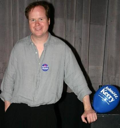 Joss Whedon. Kerry/Edwards Fundraiser Oct 24,2004